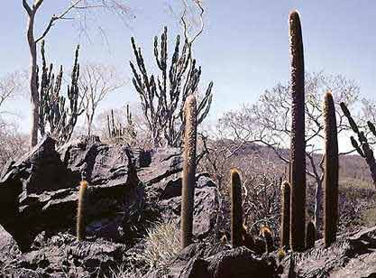 Type locality N Goias, Brasil